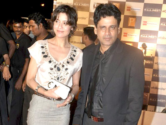 Shabana Raza (Neha Bajpai) with husband Manoj Bajpai at Premiere of Raajneeti